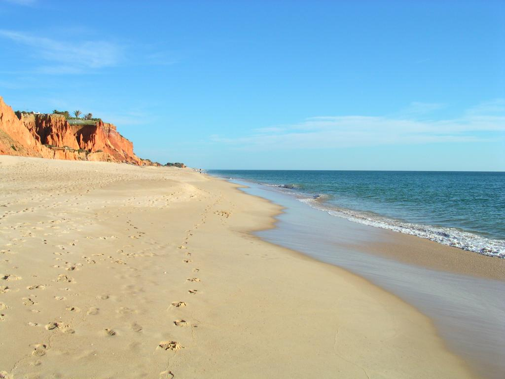 Praia de Vale do Lobo, Algarve, Portugal.